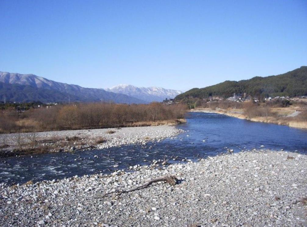 Tenryu River, at the Komami Bridge